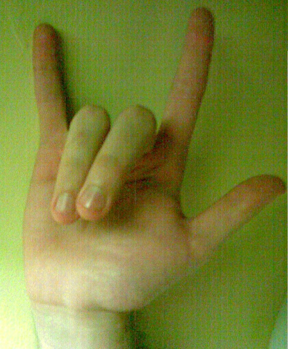 ASL short for "I love you"